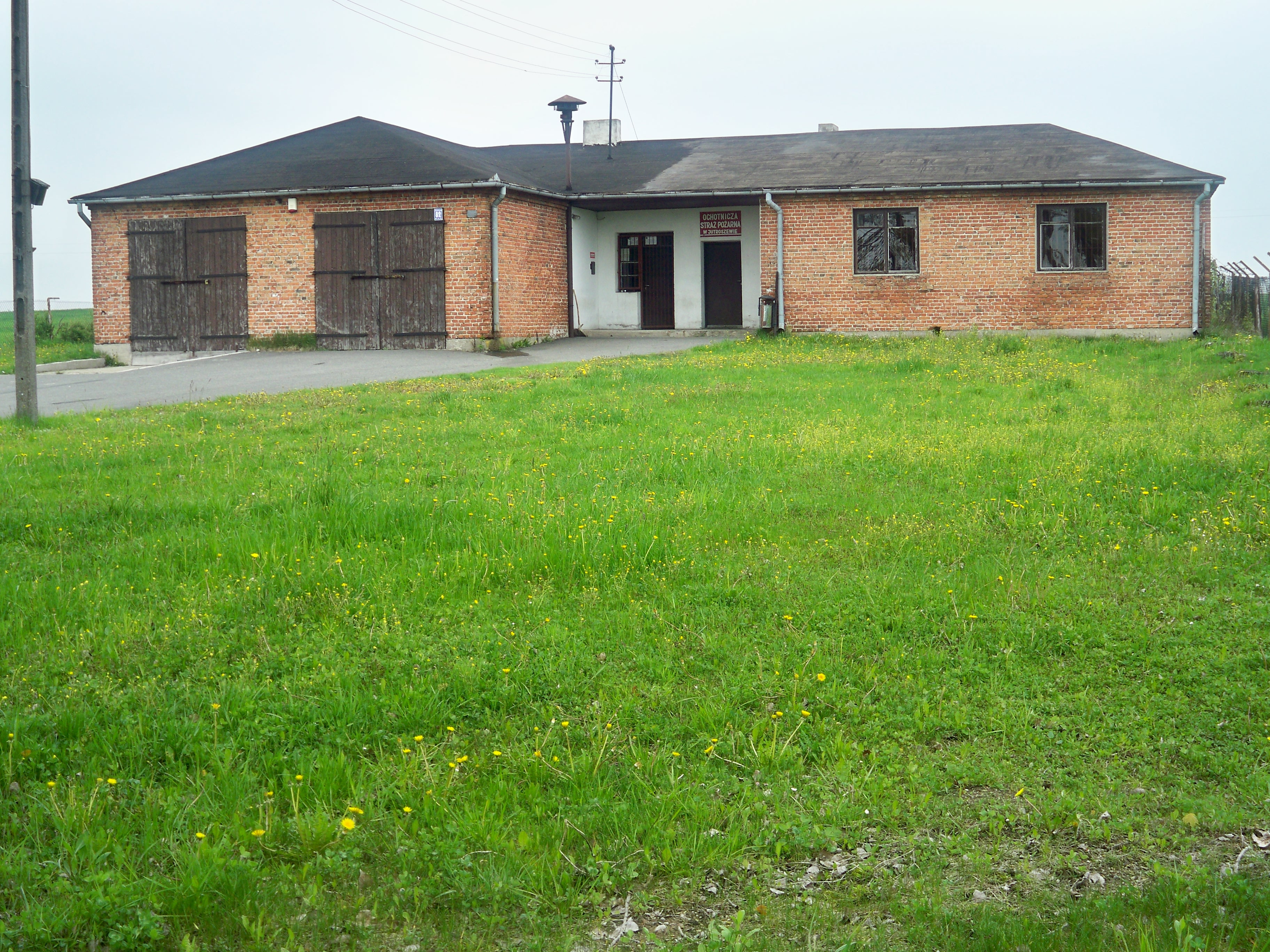 My photo